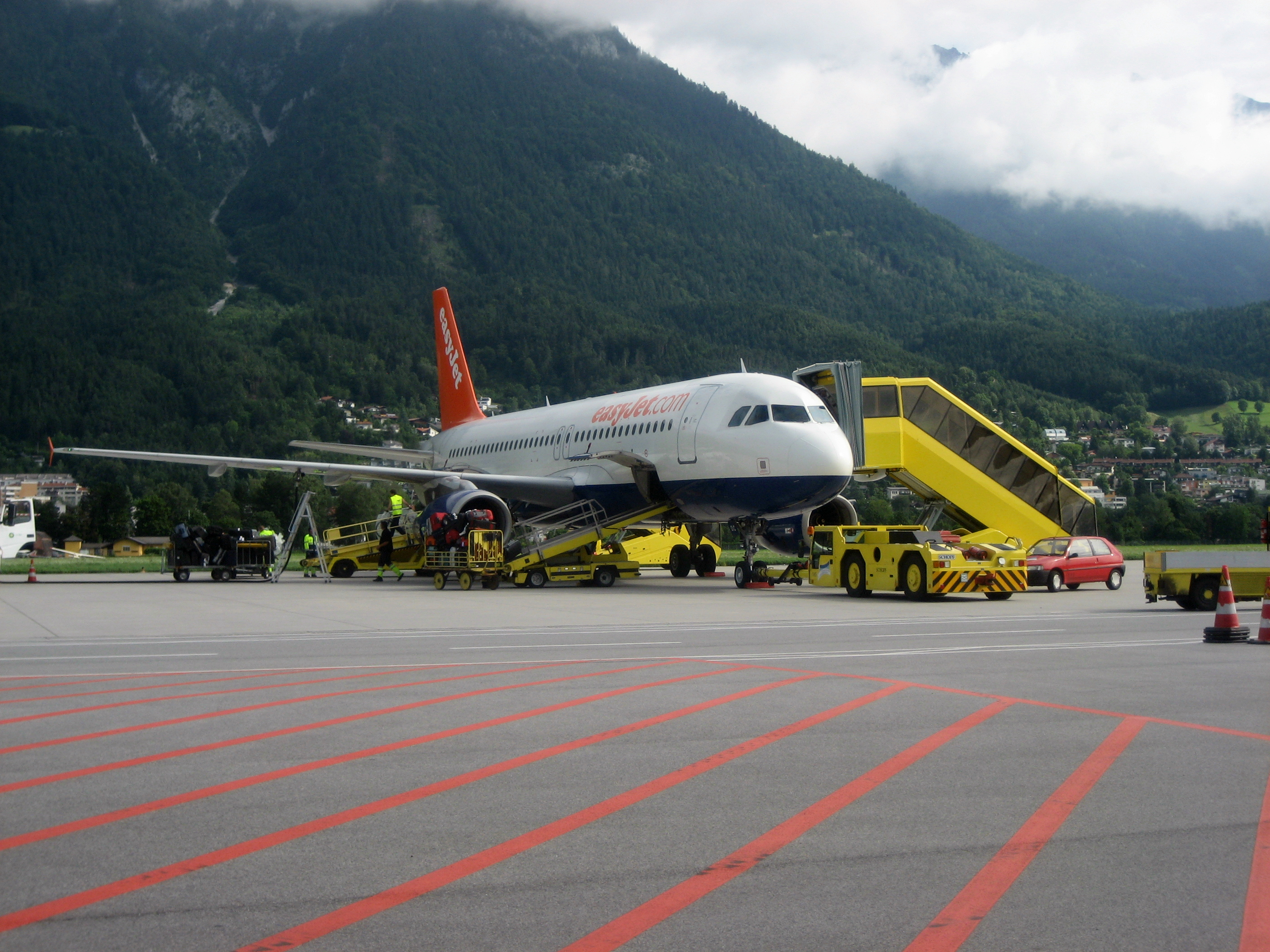 An easyJet A320, G-TTOC, prepares for departure at Innsbruck.